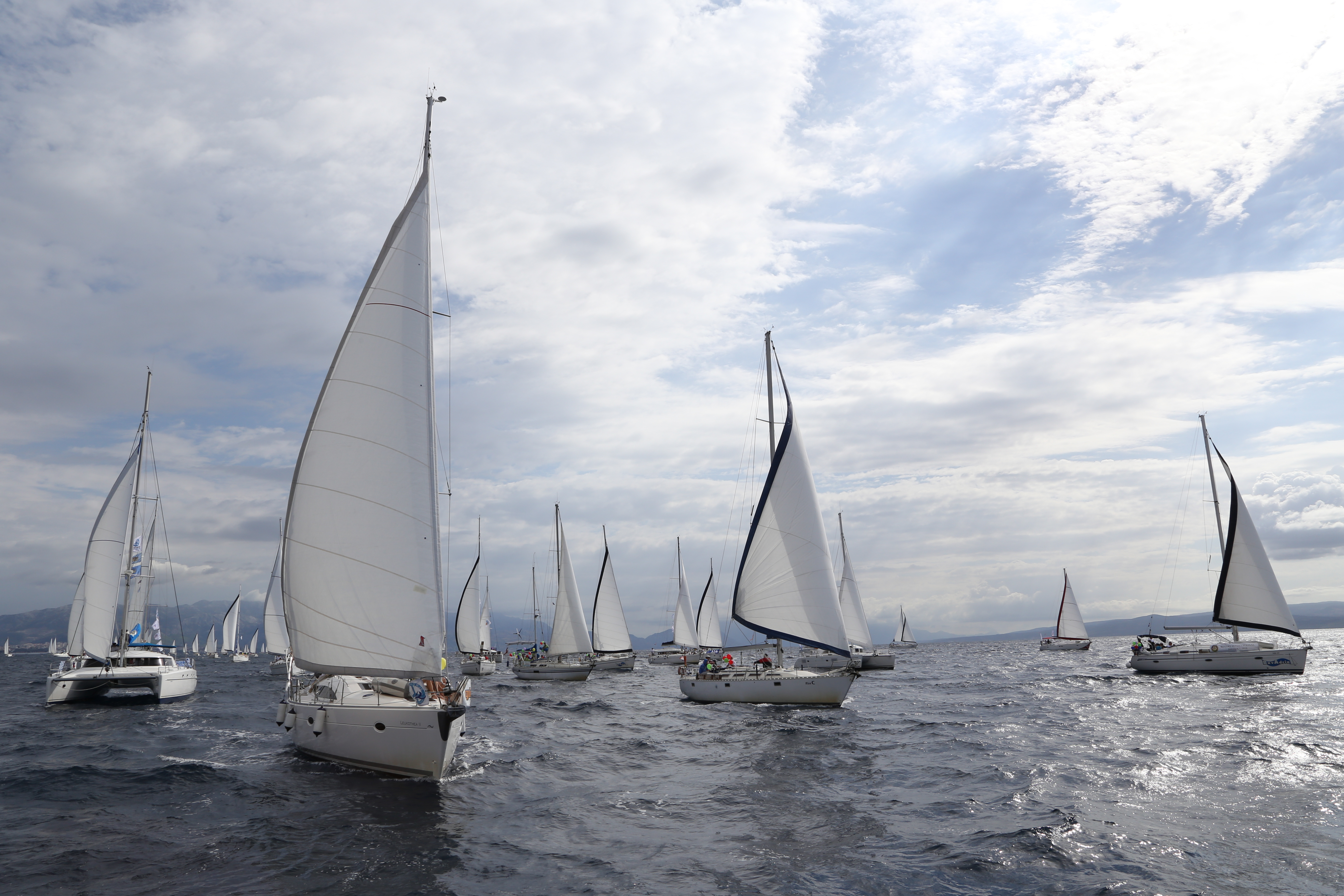 Peacefleet mirno more 2013 in Croatia